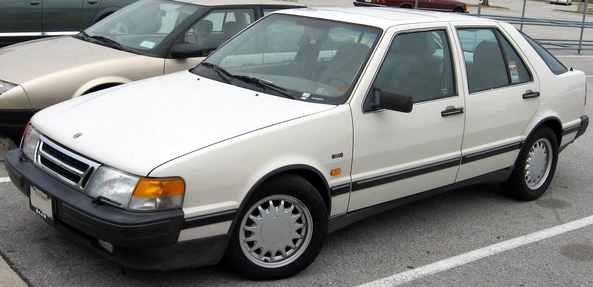 1992-1998 Saab 9000 hatchback photographed in USA.